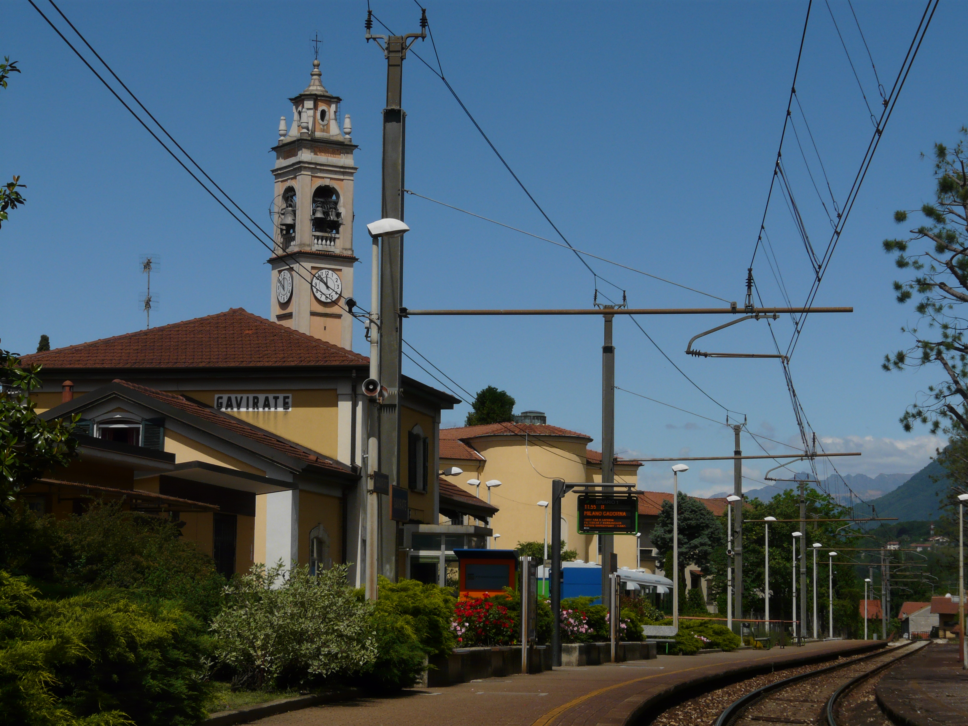 Gavirate railway station